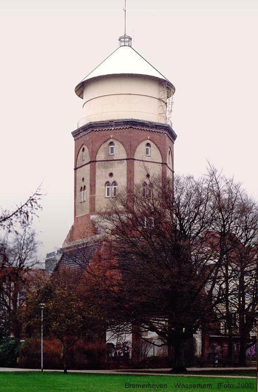 Bremerhaven (Germany), water tower Bremerhaven-Lehe, photo 2000